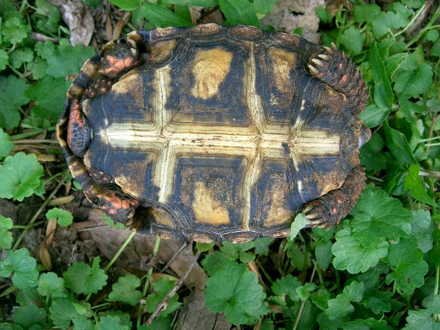 Plastron view of a young 'cherryhead' red-footed tortoise, Chelonoidis carbonaria showing the darker patterning